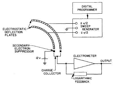 Block diagram of Mariner 2 solar plasma instrumentation